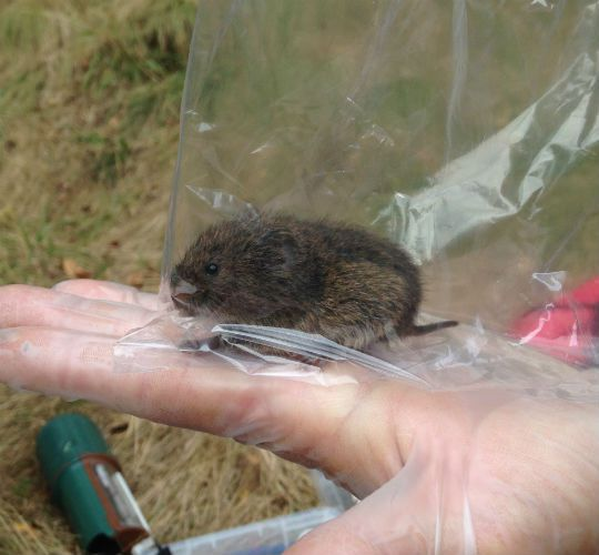 Bank Vole captured in capture-release population study at London Wildlife Trust's Gunnersbury Triangle local nature reserve